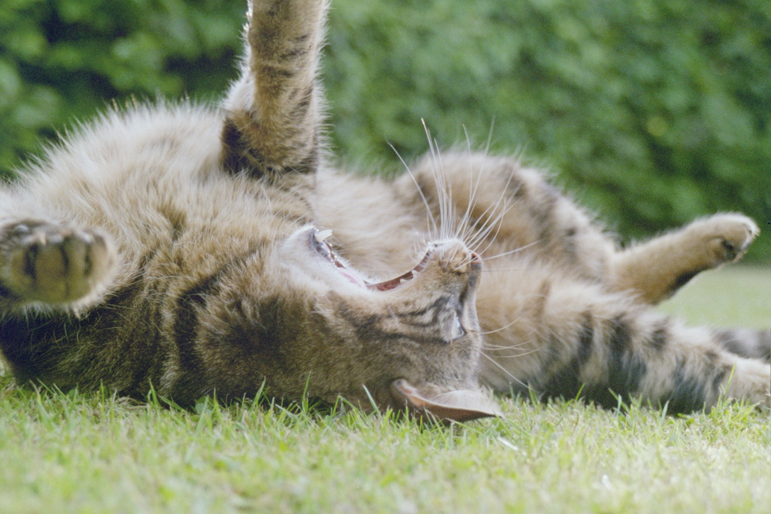 Cat stretching out on the grass